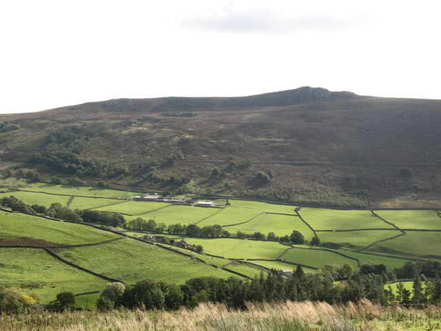 View towards Dalehead Farm The view south east from the roadside above Middle Skyreholme, with the buildings at Dalehead Farm standing at the level where cultivated land gives way to heathery moorland. Behind the farm, steep rock strewn slopes lead up some 280 metres to the craggy summit of Simon's Seat.